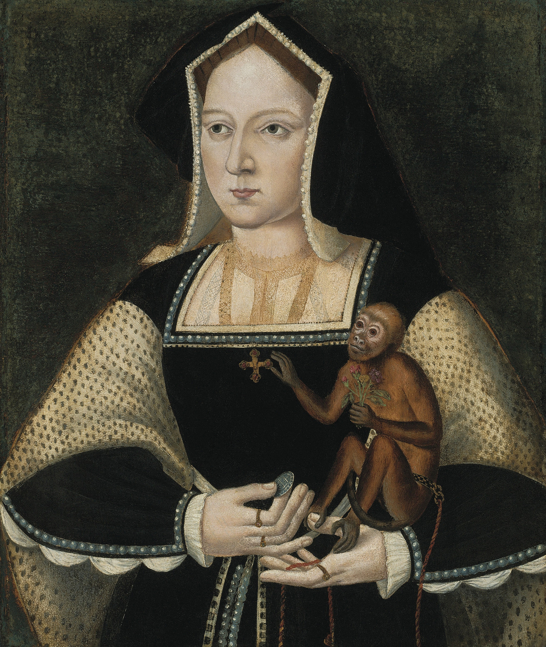 Catherine of Aragon (1485-1536), Queen consort of England (1509-1533), 1530